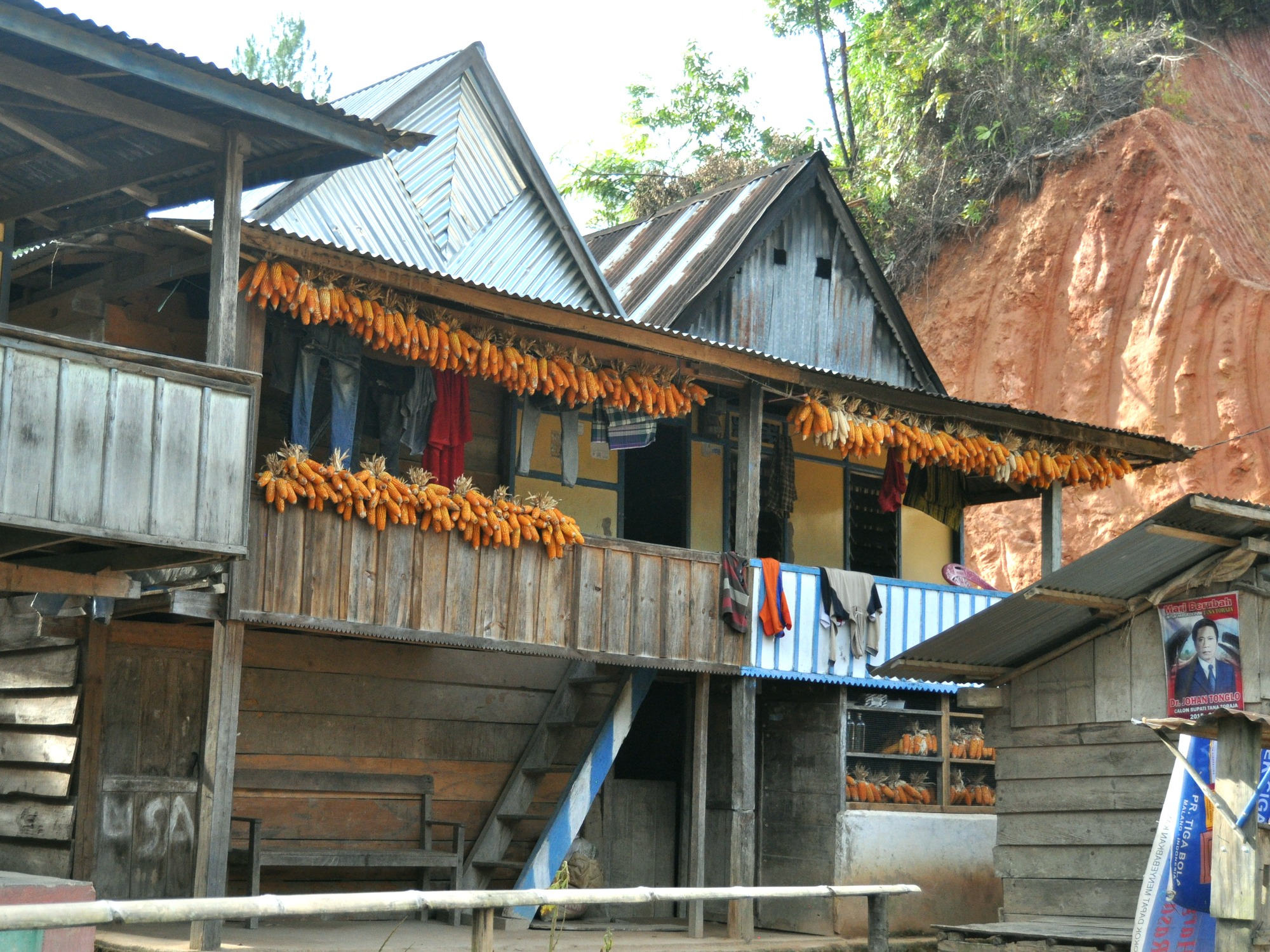 Drying corncobs at the balcony terrace. Mamasa, West Sulawesi, Indonesia.